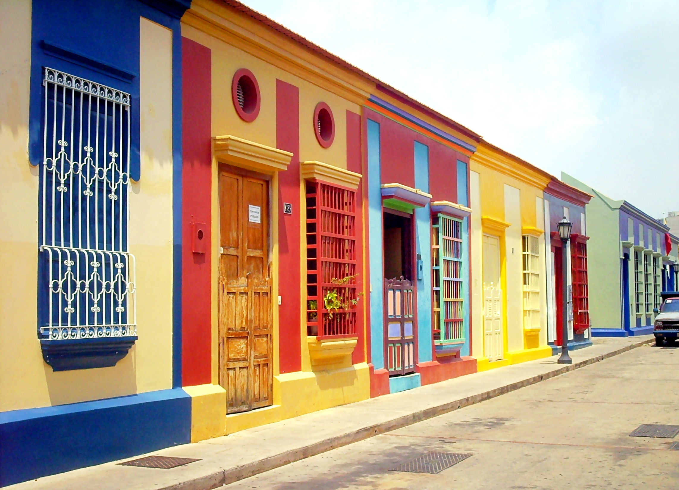 Carabobo street contains much of the city's famous colonial architecture.